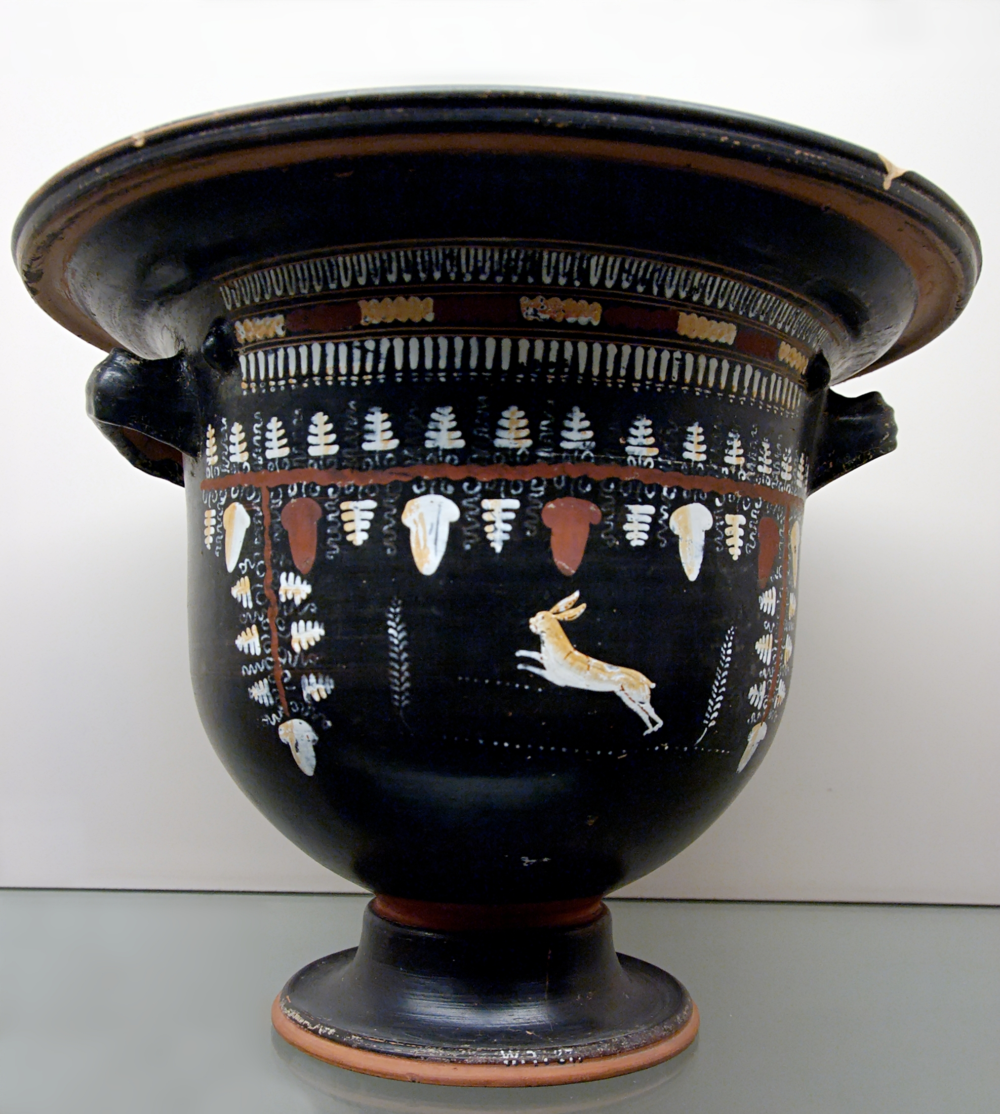 Hare and wines. Apulian bell-krater of the Gnathia style. From Gnathia.